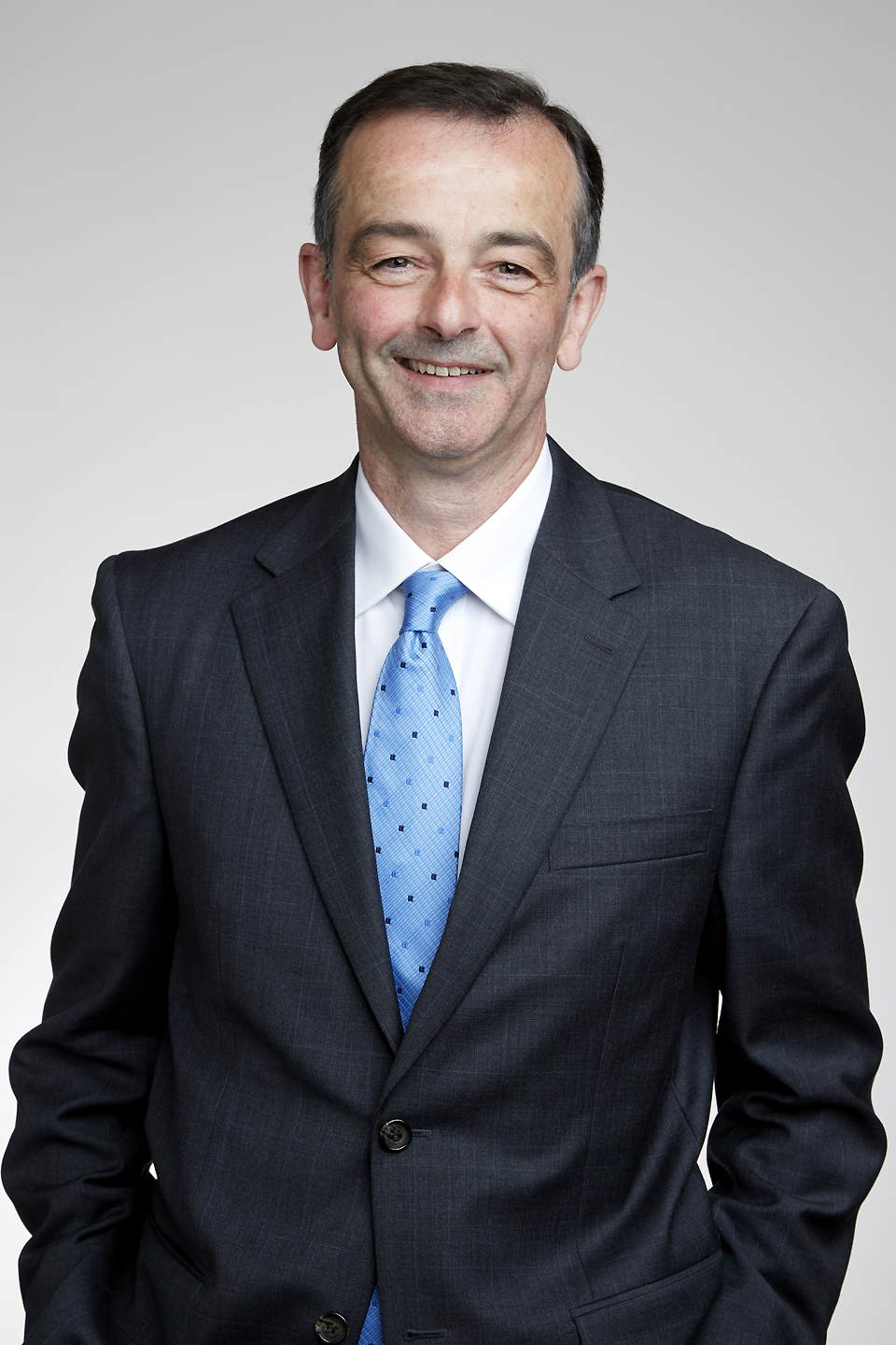 Martin Robert Bridson FRS is the Whitehead Professor of Pure Mathematics at the University of Oxford and a Fellow of Magdalen College, Oxford Attribution: The Royal Society